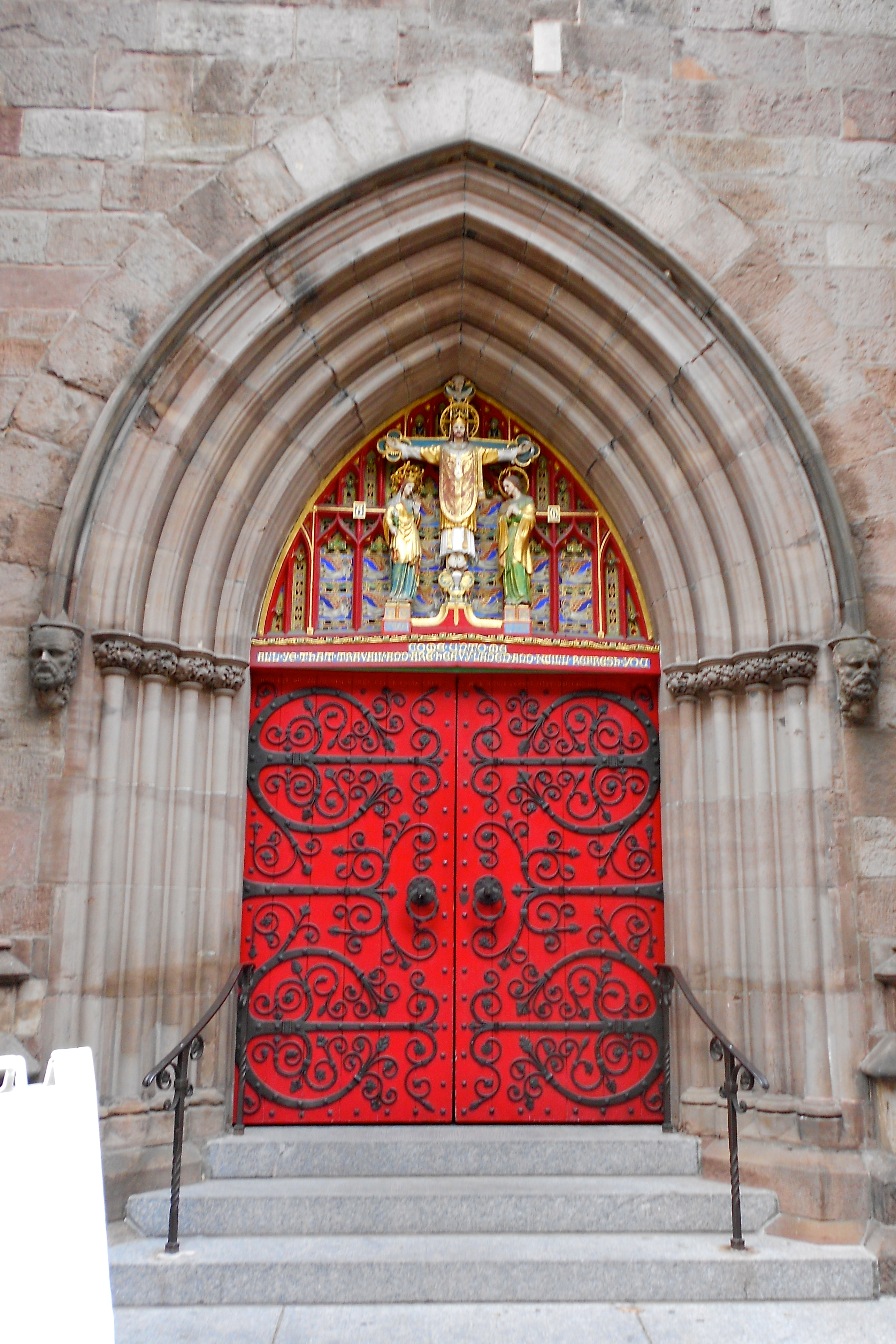 St. Marks, Locust Street, Philadelphia, PA